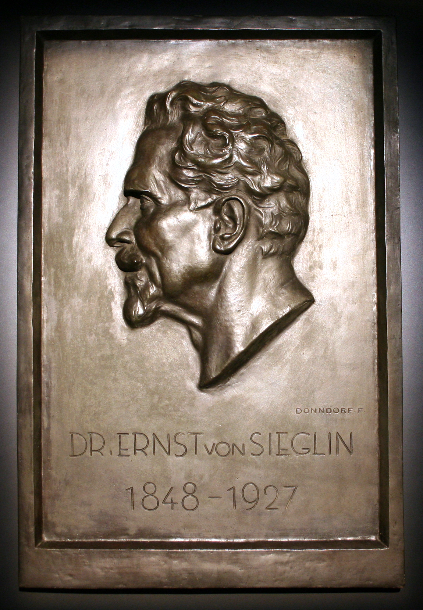 State museum Württemberg, Stuttgart